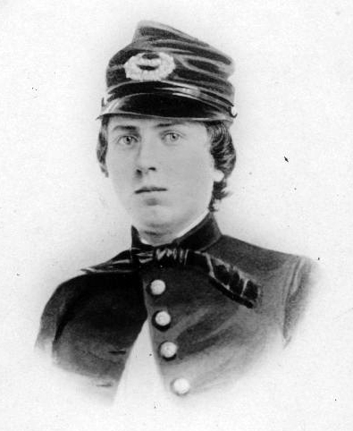 U.S. Army First Lieutenant Alonzo Cushing (January 19, 1841 – July 3, 1863), an American Civil War soldier who was killed in the Battle of Gettysburg